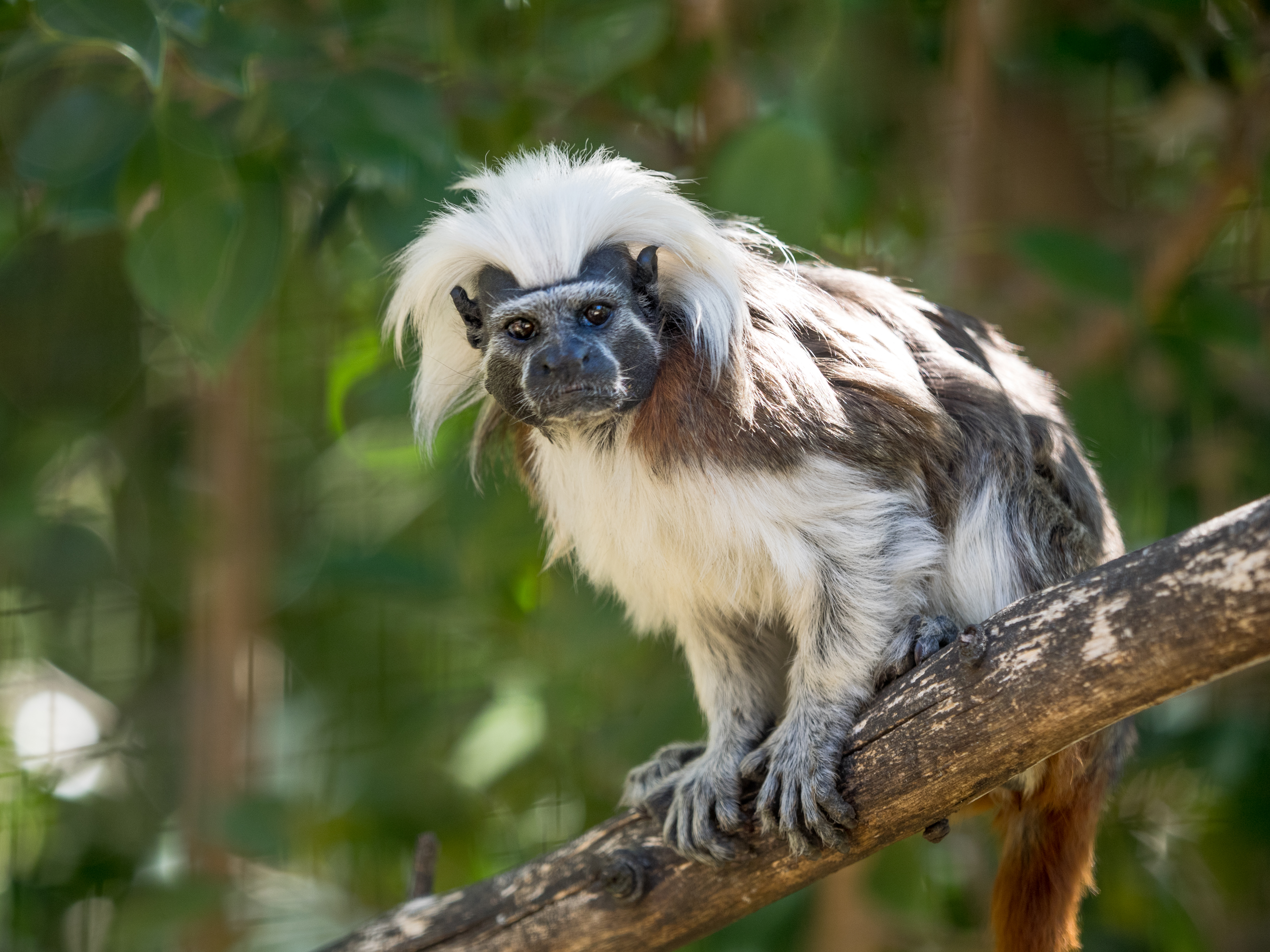 Cotton-top Tamarin at Zoo Lagos, Portugal PERMISSION TO USE: Please check the licence for this photo on Flickr. If the photo is marked with the Creative Commons licence, you are welcome to use this photo free of charge for any purpose including commercial. I am not concerned with how attribution is provided - a link to my flickr page or my name is fine. If used in a context where attribution is impractical, that's fine too. I enjoy seeing where my photos have been used so please send me links, screenshots or photos where possible. If the photo is not marked with the Creative Commons licence, only my friends and family are permitted to use it.